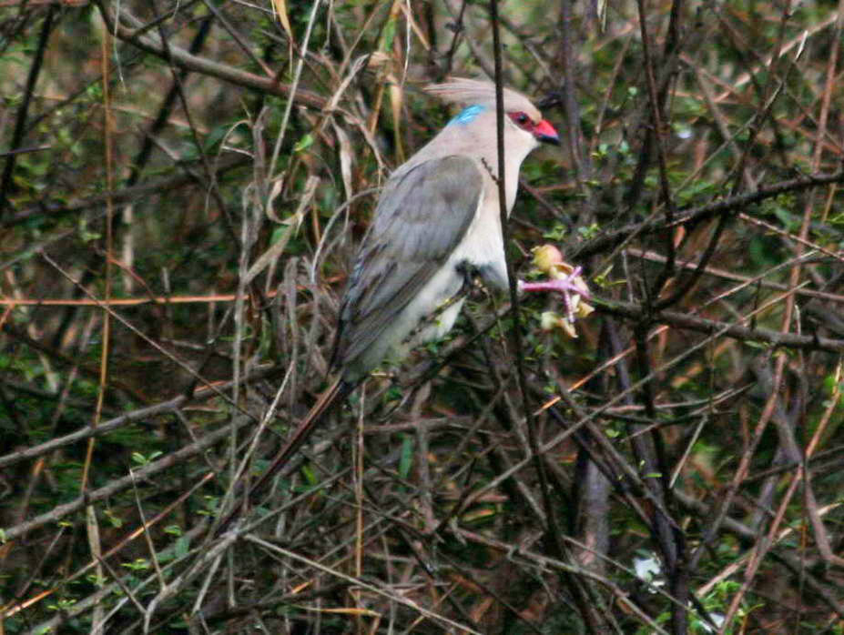 Blue-naped Mousebird (Urocolius macrourus) - Tanzania